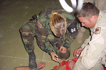 5:33 p.m., Nov. 23, 2003. SPC CHRISTOPHERSON is observing SPC AMBUHL giving a shot to a detainee. SOLDIER(S): SPC CHRISTOPHERSON and SPC AMBUHL. U.S. Army / Criminal Investigation Command (CID). Seized by the U.S. Government.